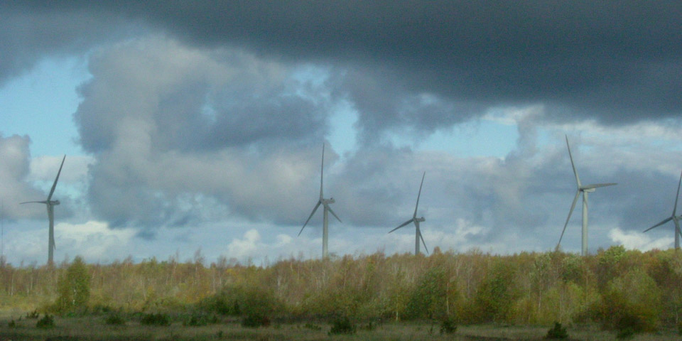 Wind farm in Paldiski (Estonia), 2006